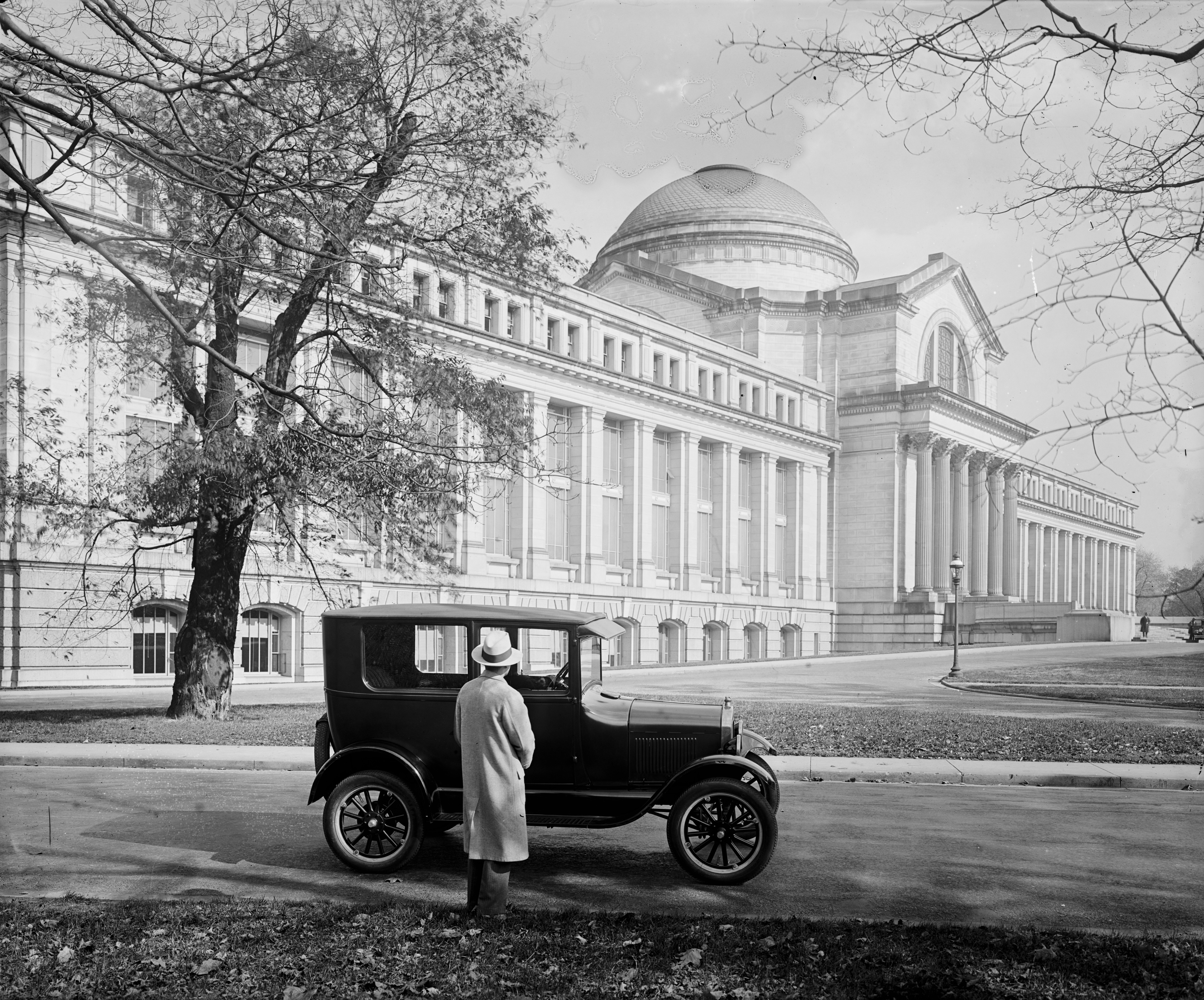 Ford Model T parked in front of the Smithsonian's National Museum of Natural History (then known as the National Museum) in Washington, D.C.